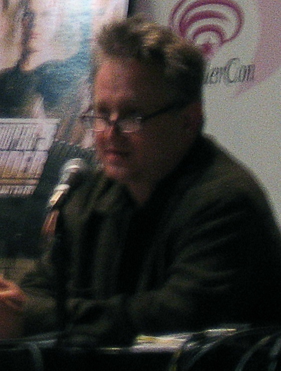 Edward Neumeier (identity evident after comparing with